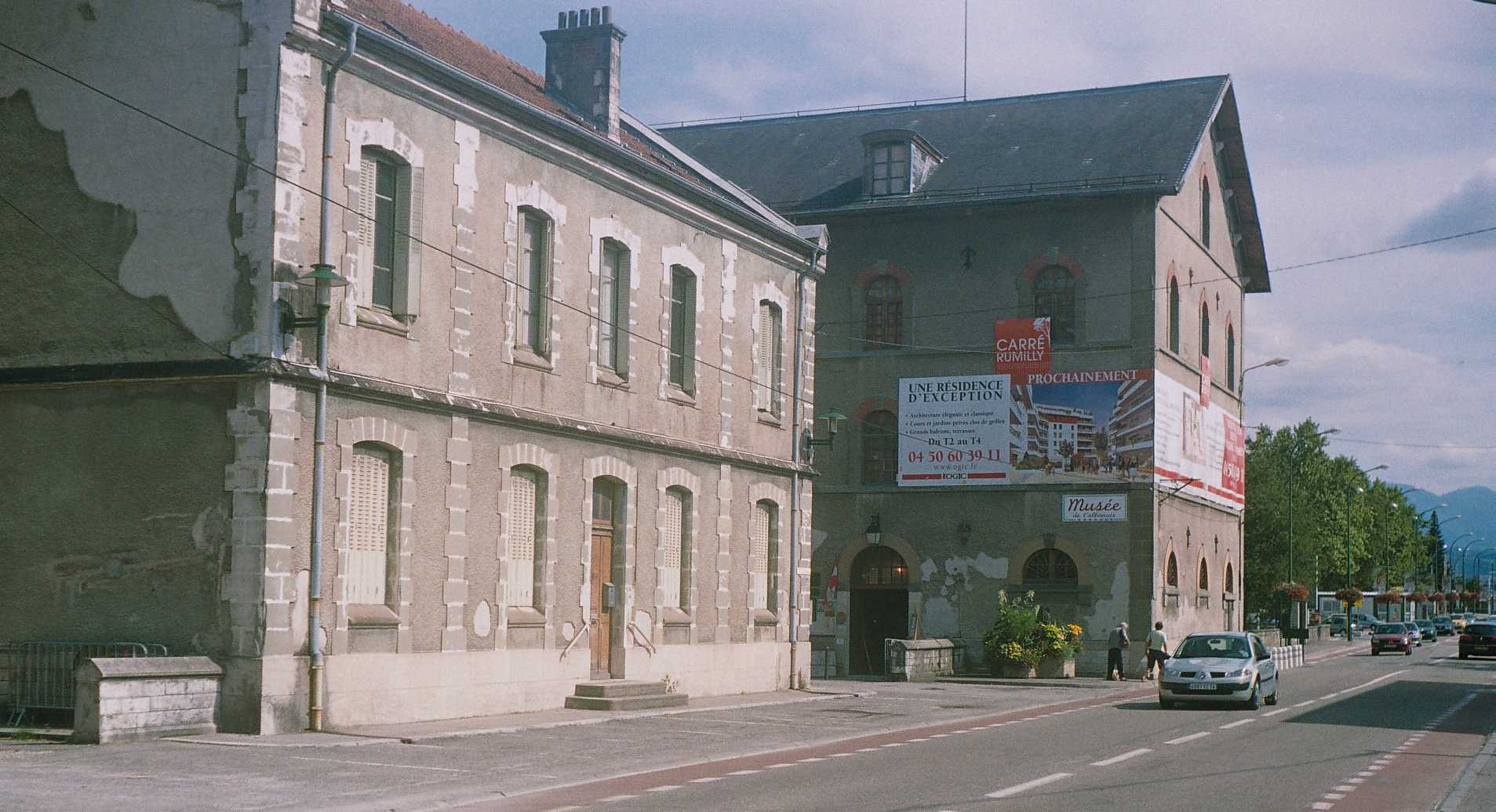 Rumilly (Haute-Savoie, France): former manufacture of tobacco.